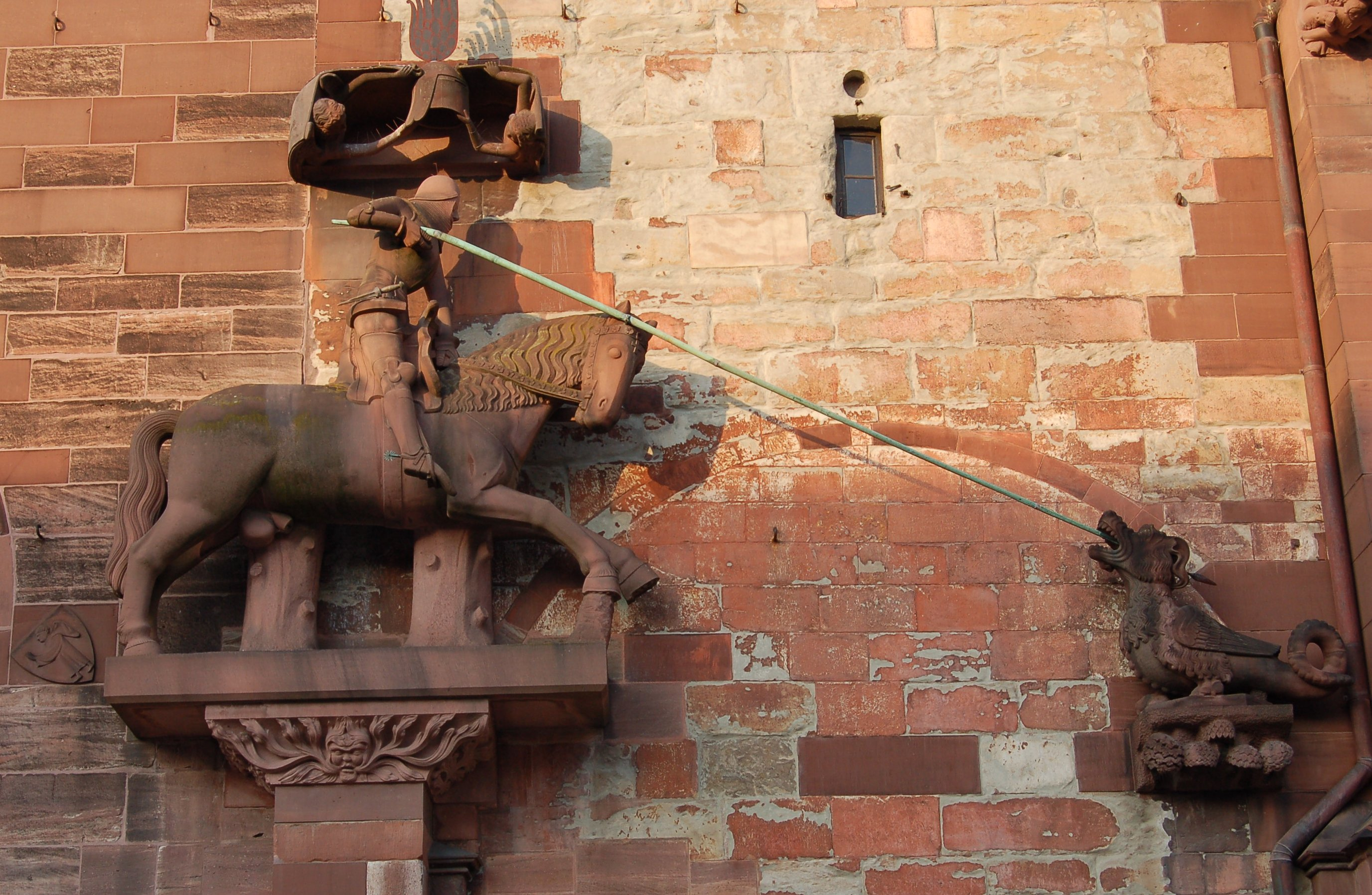 St. George's fighting with a dragon - sculptures from Basel Cathedral